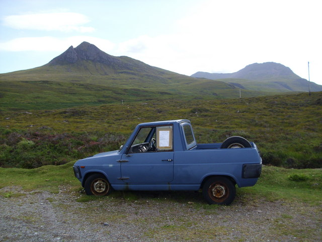 Reliant Fox at the roadside